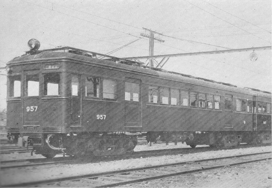 Hankyu 957.